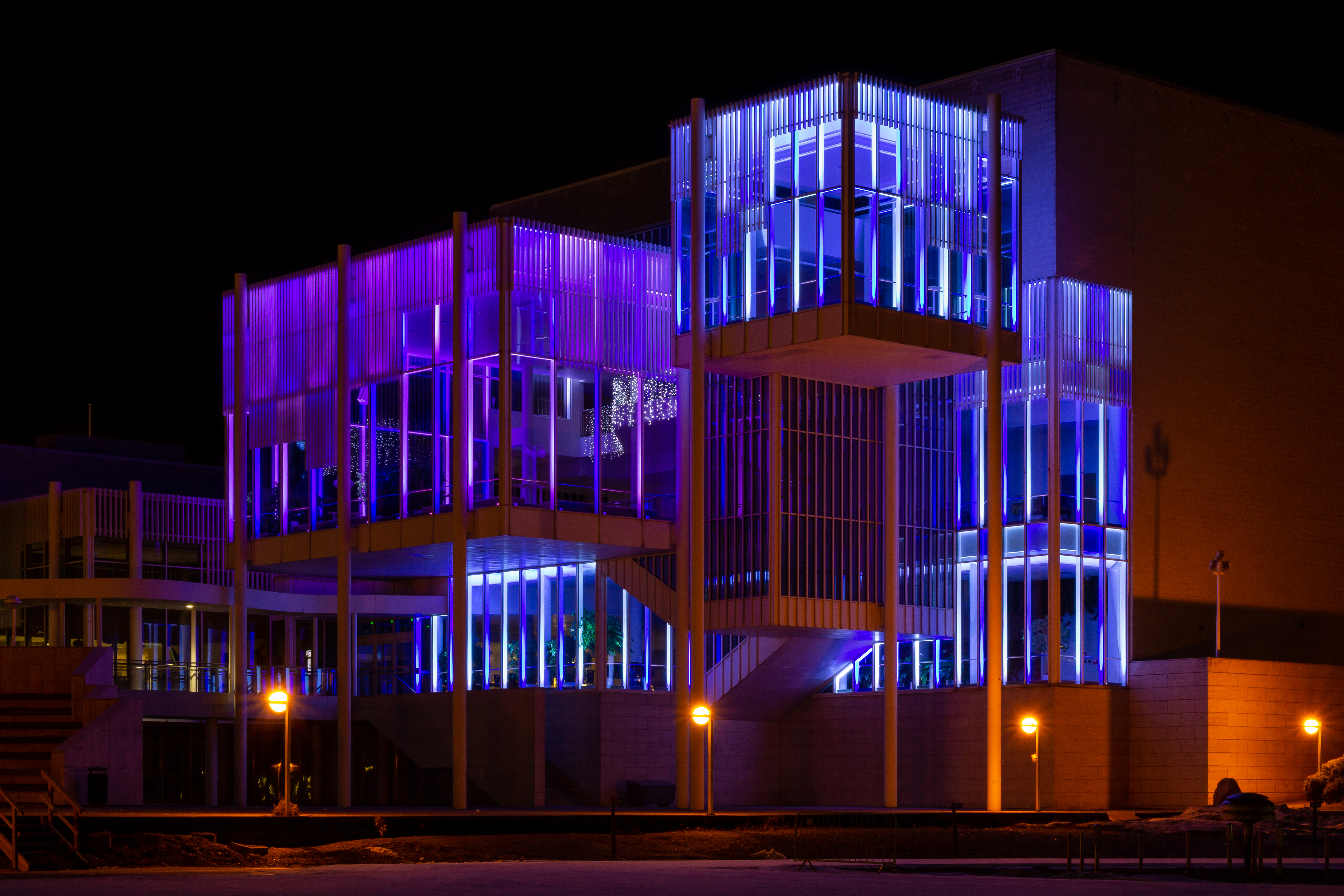 Blue / purple facade lighting of the Espoo Cultural Centre in December 2018.